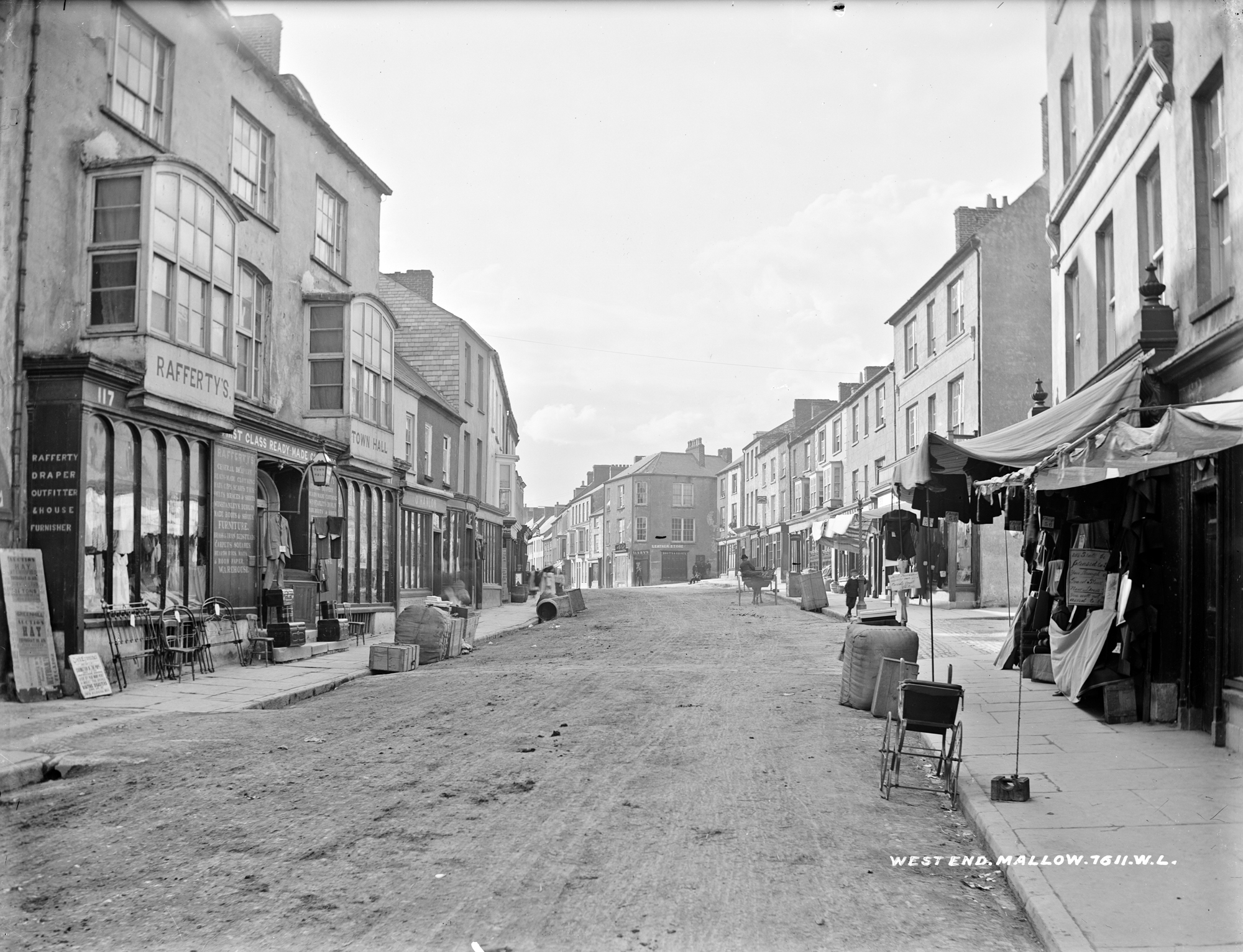 The West End in Mallow was obviously a thriving place given the amount of goods and chattels on display. It seems a very "English" name or description for an Irish town, I wonder is it still used today? Thanks to Megazoom™, our eagle-eyed contributors, and some pretty exhaustive searching of Cork Examiner archives by our intrepid Flickroonies, it seems fairly certain that we've attained the elusive trifecta for this one. Including location (117 Thomas Davis Street [Main St], Mallow, Co. Cork), subject (Rafferty's, Hanlon's, Barry's and other shops), and date (c.11 August 1903). We're really just short the name of the young fella leaning on the lamppost... Photographer: Robert French Collection: Lawrence Photograph Collection Date: c.1880-1900 (but likely August 1903) NLI Ref: L_ROY_07611 You can also view this image, and many thousands of others, on the NLI’s catalogue at